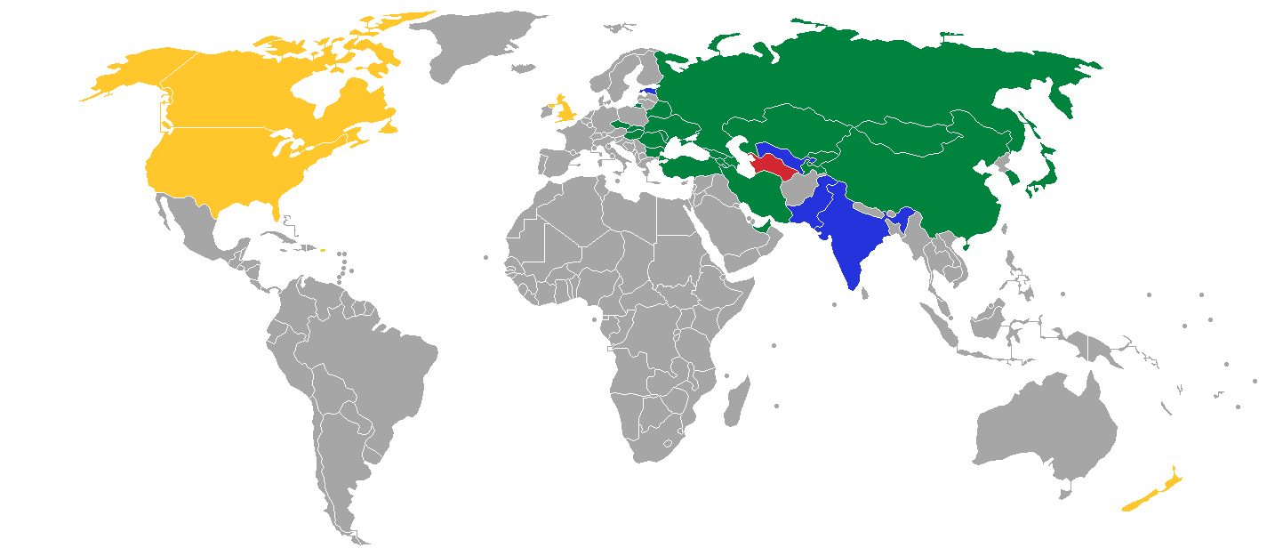 Visa policy of Turkmenistan for holders of diplomatic and service category passports Turkmenistan Visa-free for holders of diplomatic and service category passports Visa-free for holders of diplomatic passports Visa on arrival for holders of diplomatic passports